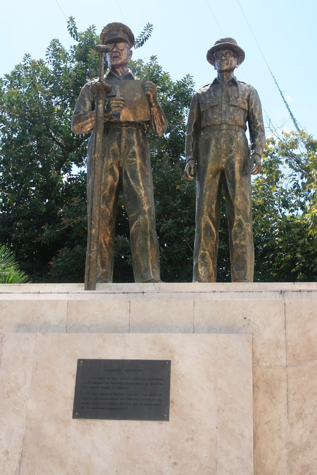 Tacloban: Turnover ceremony statue